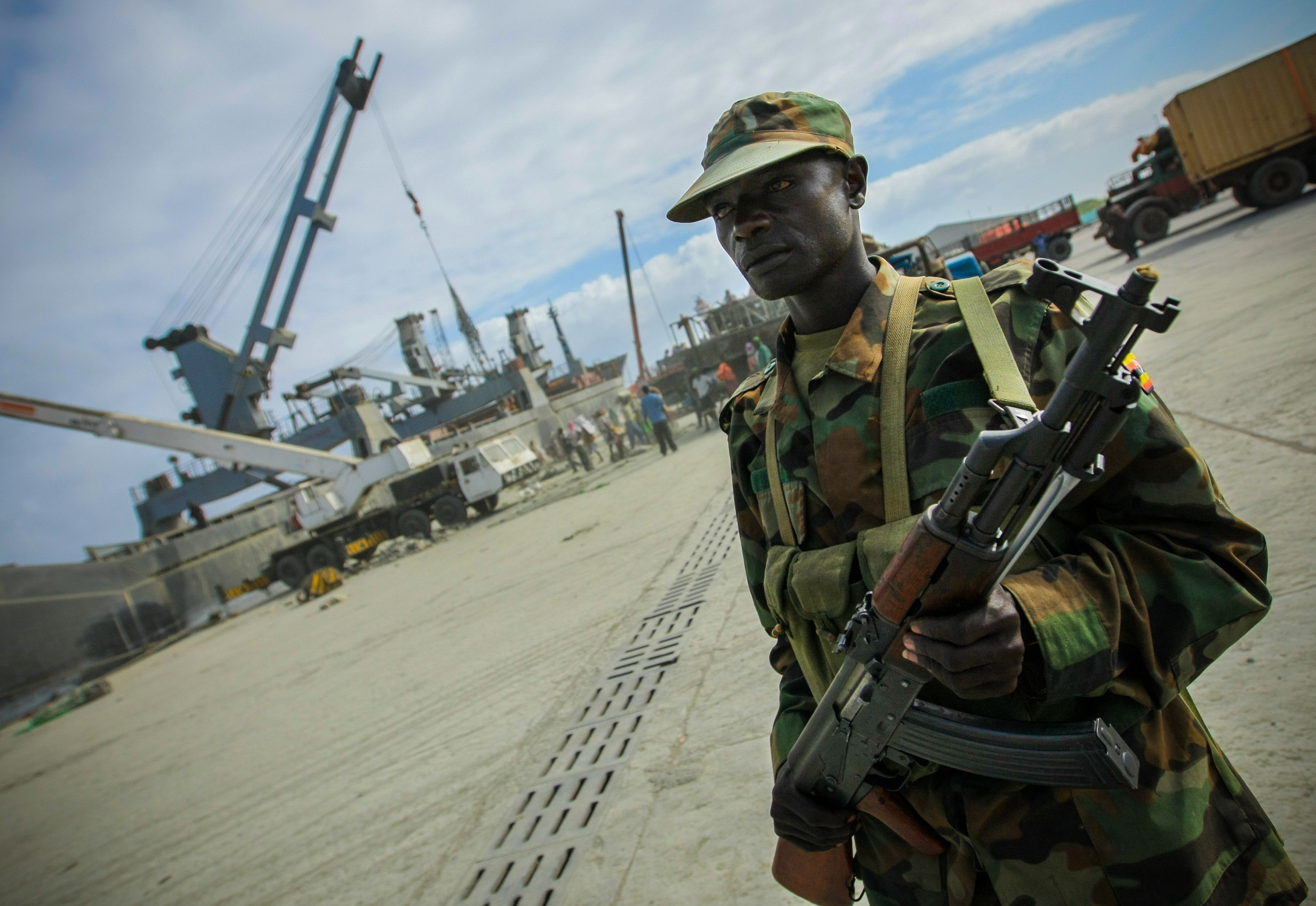 A soldier of the African Union Mission in Somalia (AMISOM) keeps guard 06 August 2012, inside the seaport of the Somali capital Mogadishu. August 06 is the one-year anniversary marking the date that Al-Qaeda-affiliated extremist group Al Shabaab withdrew from fixed positions in Mogadishu after having steadily lost territory to forces of the Transitional Federal Government (TFG) backed by troops from the African Union Mission in Somalia (AMISOM), ending their draconian stranglehold on the capital and its population. In the last 12 months, residents of Mogadishu have enjoyed the longest period of relative peace in their city for 20 years, with re-building and re-generation work taking place all over the city and businesses and a semblance of normal daily life returning to the now busy streets of the war-shattered Horn of Africa capital. AU-UN IST PHOTO / STUART PRICE.